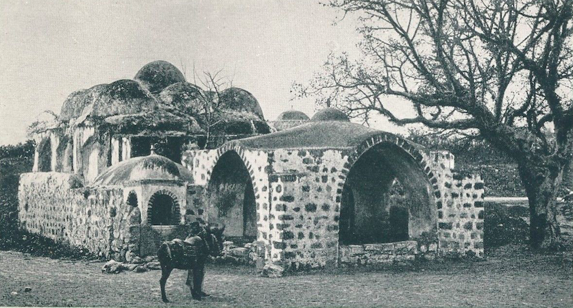 Yasur